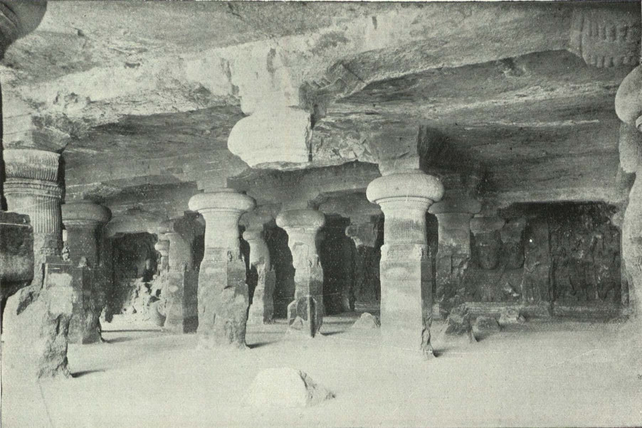 These Caves are said to have been built in the eighth century, they were damaged by the Portuguese and restored by the British.